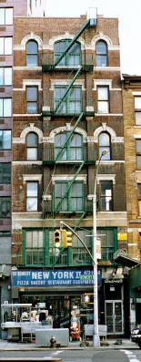 Andrews Exterior